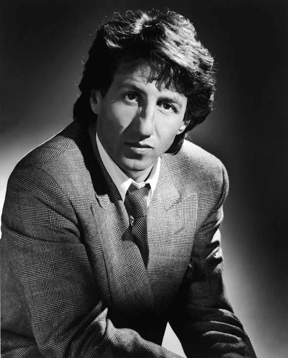 Richard Anconina photographed by Studio Harcourt Paris